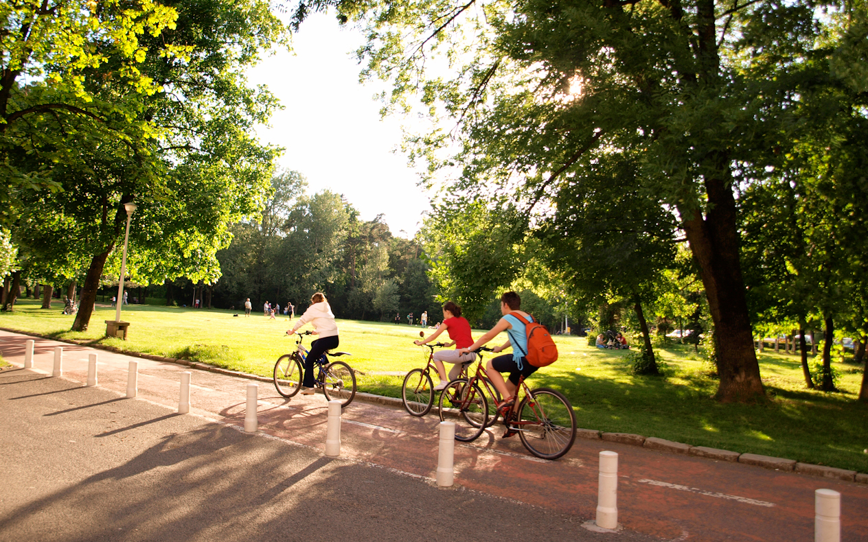 Bicycle riders in park, in Sibiu.